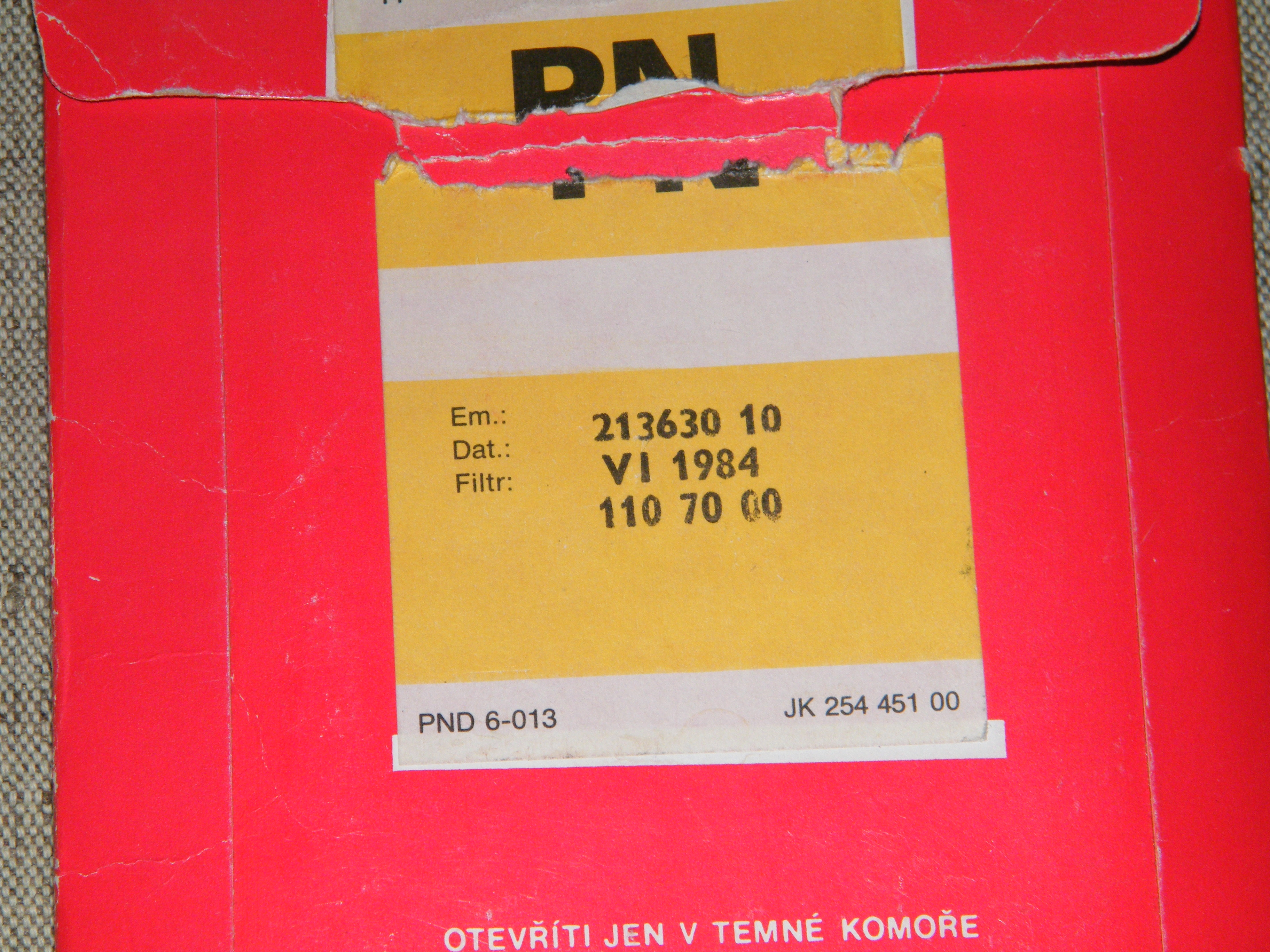 Фотобумага Фомаколор PN